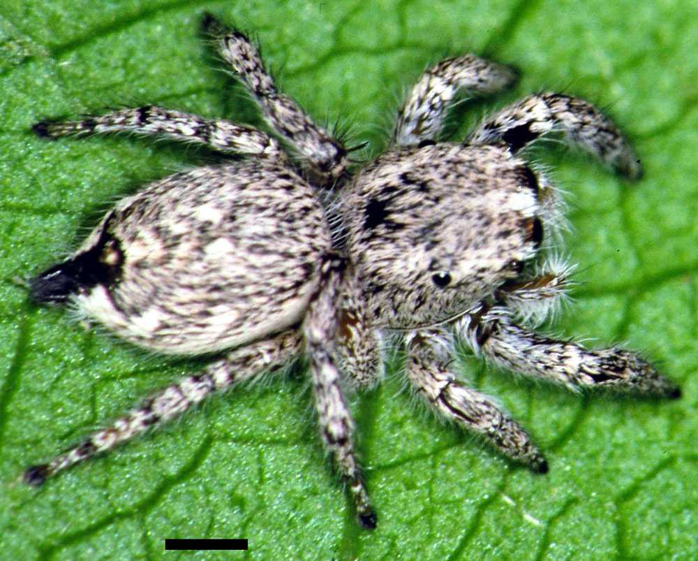 Female Habronattus georgiensis jumping spider from Seahorse Key, Levy County, Florida, USA